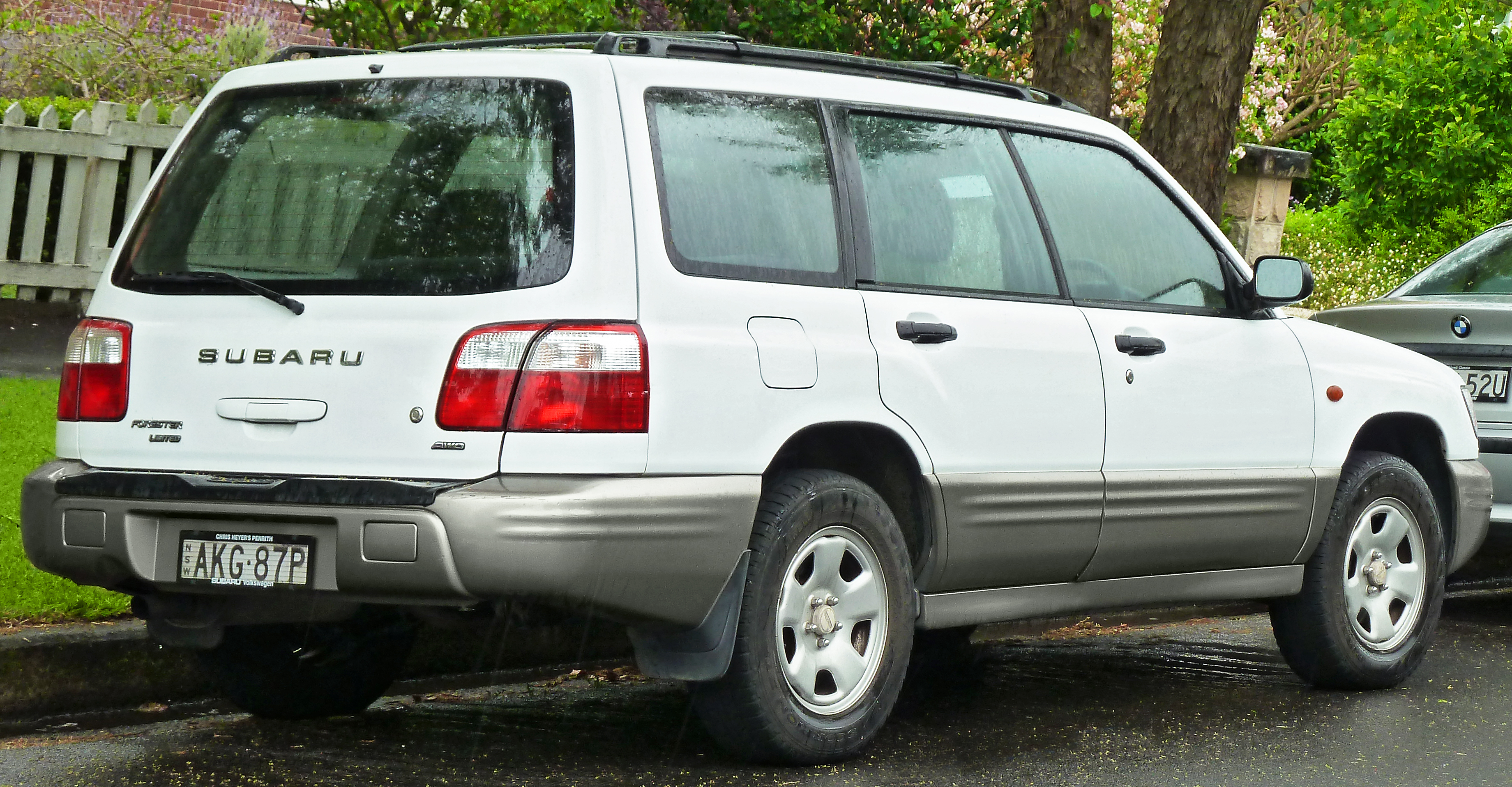 2001 Subaru Forester (SF5 MY01) Limited wagon. Photographed in Roseville, New South Wales, Australia.